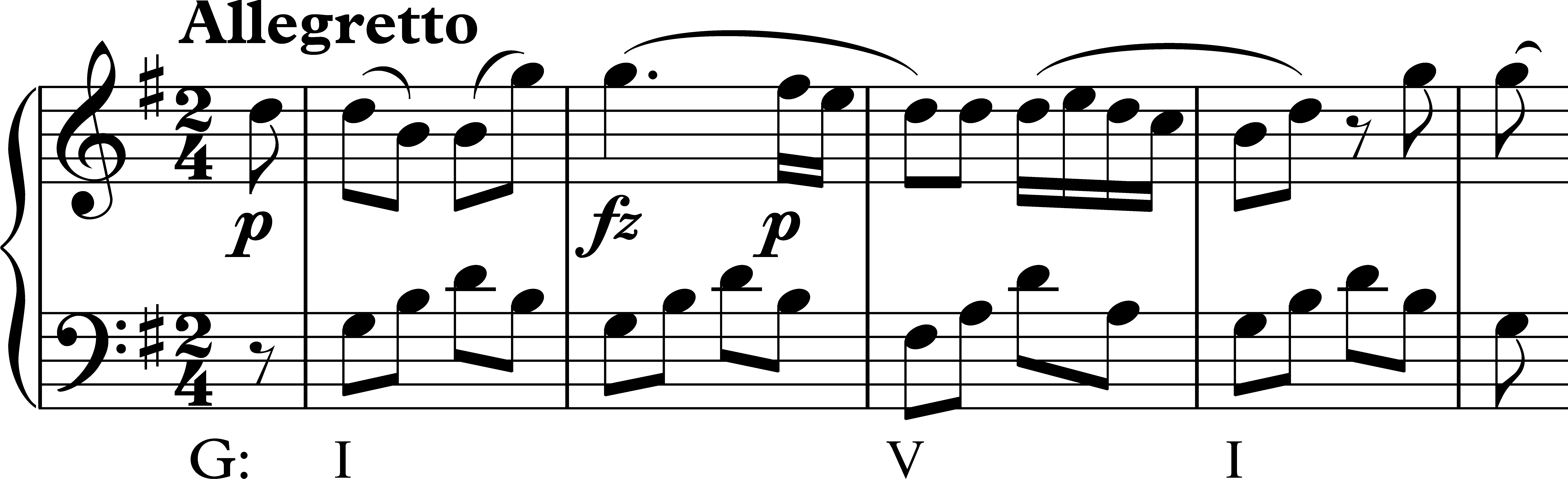 Alberti bass in the opening of Clementi's Sonatina in G, Op. 36, No. 2.